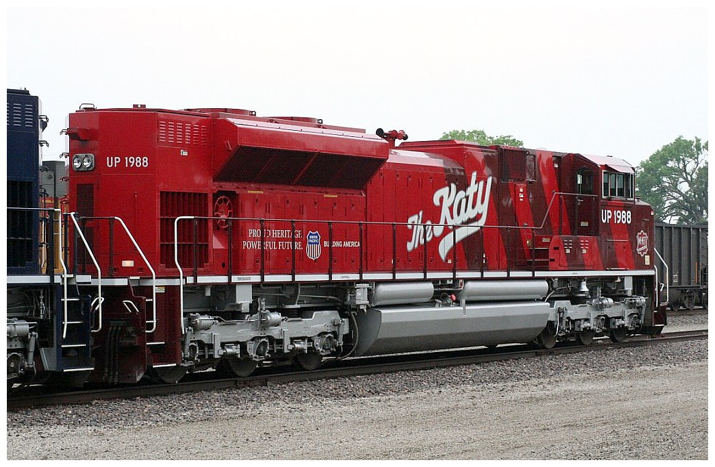 Union Pacific Railroad 1988, EMD SD70ACe [1]